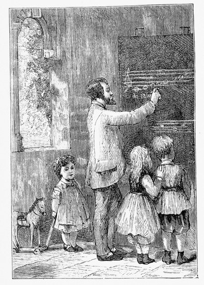 (Removed after reusableart request.)